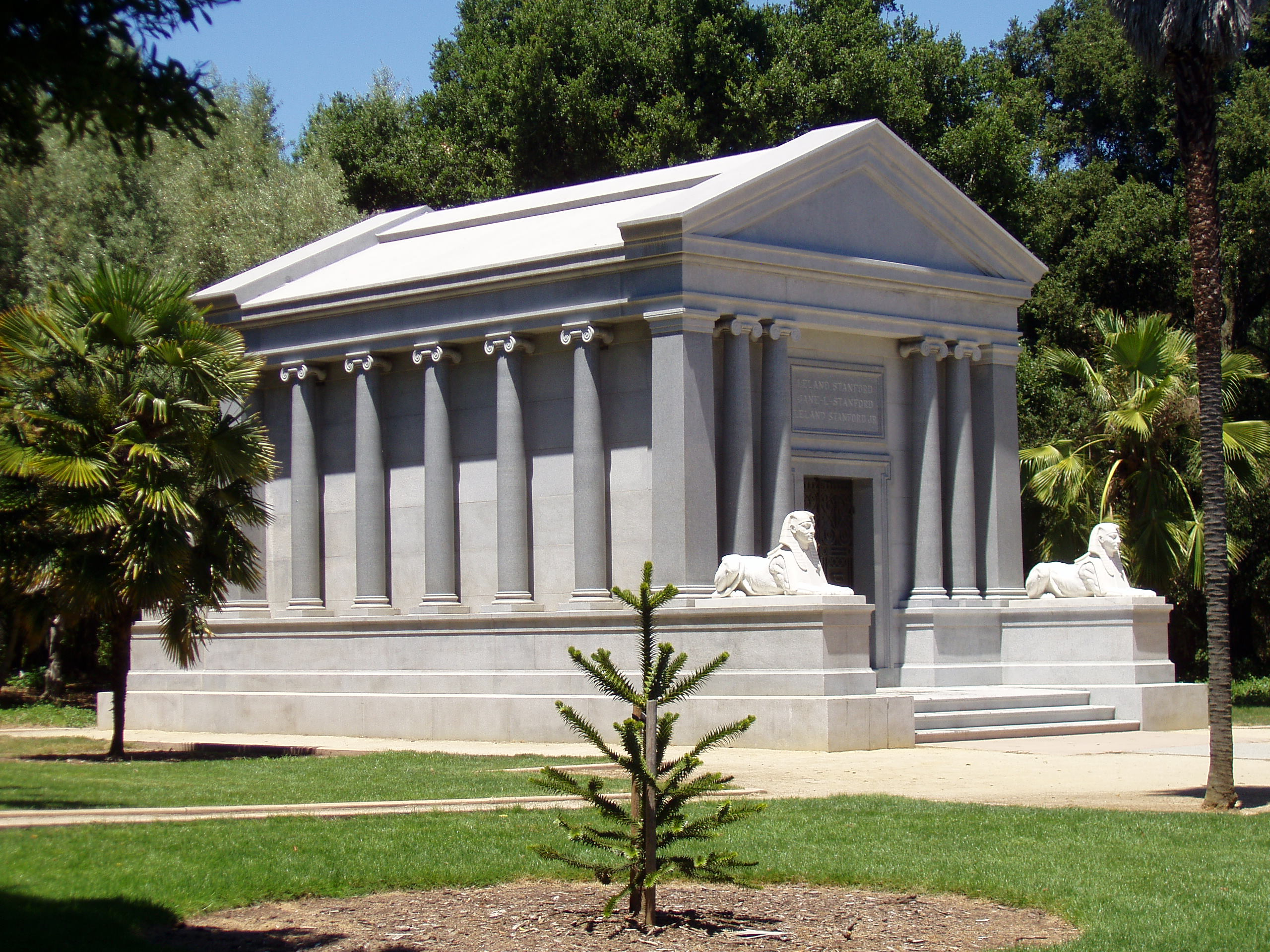 Stanford Family Mausoleum, Stanford University, Stanford, California, USA.